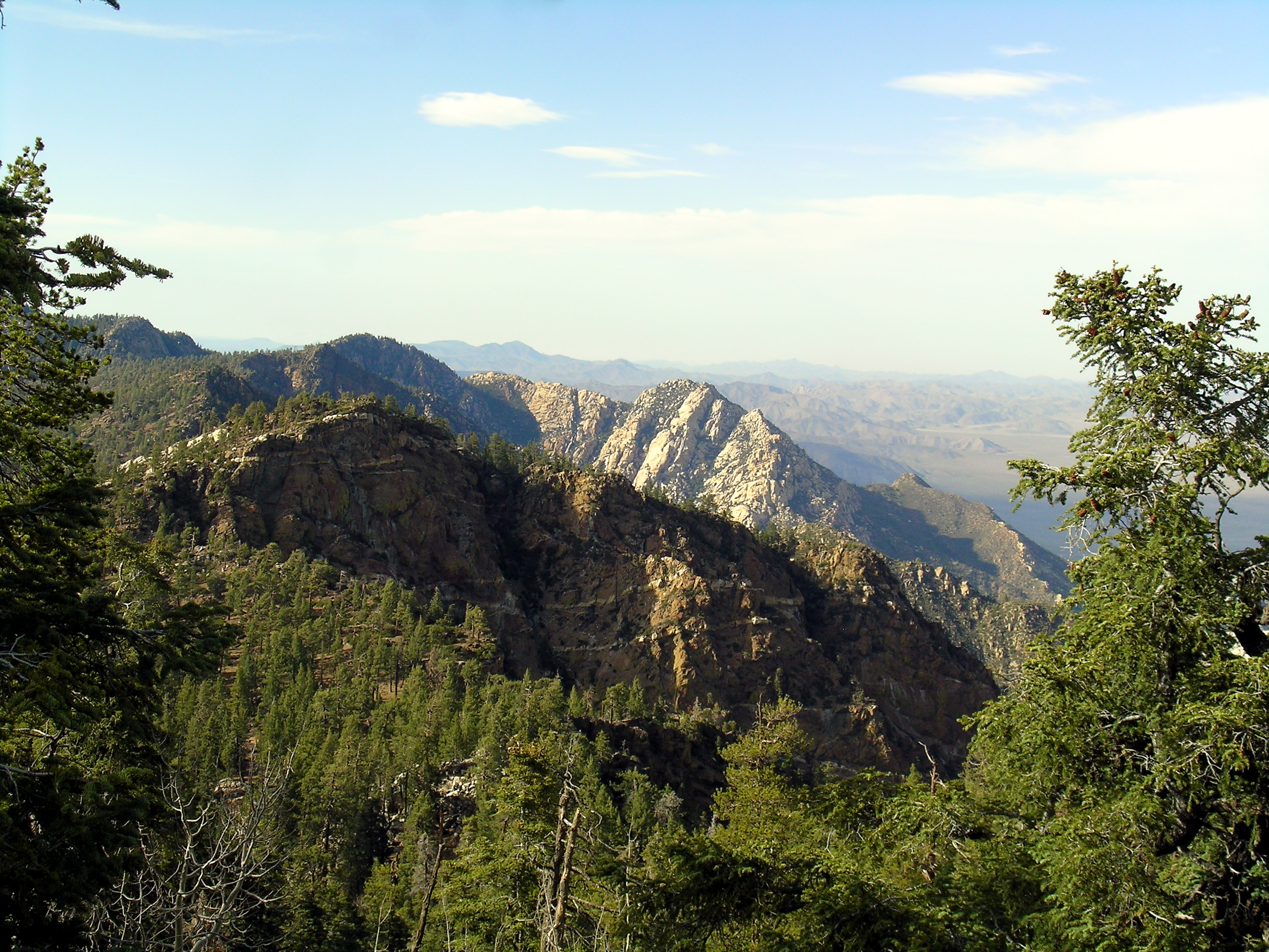 View from the summit where the 2.12m telescope is installed. Sierra San Pedro Martir, Baja California, Mexico. Tree at right is Abies concolor subsp. lowiana.